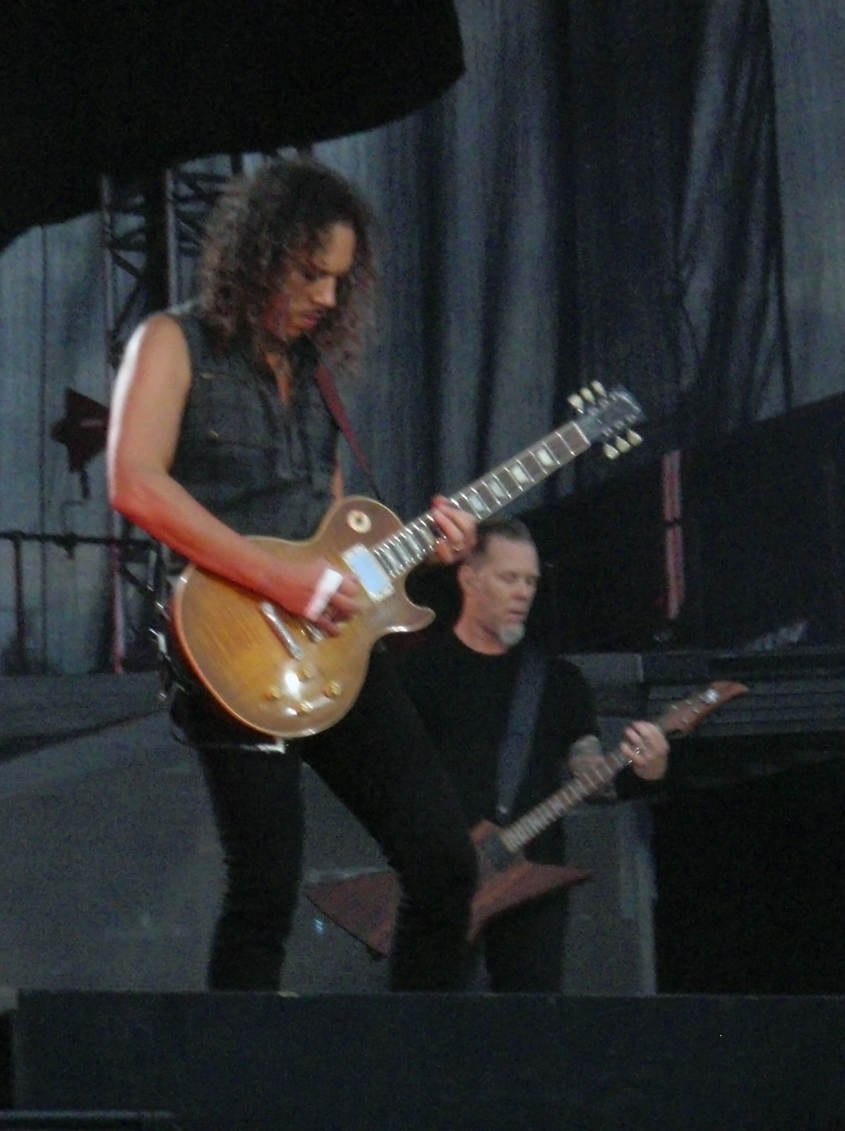 Kirk Hammett and James Hetfield from Metallica performing at Sonisphere Festival in Kirjurinluoto, Pori, Finland.